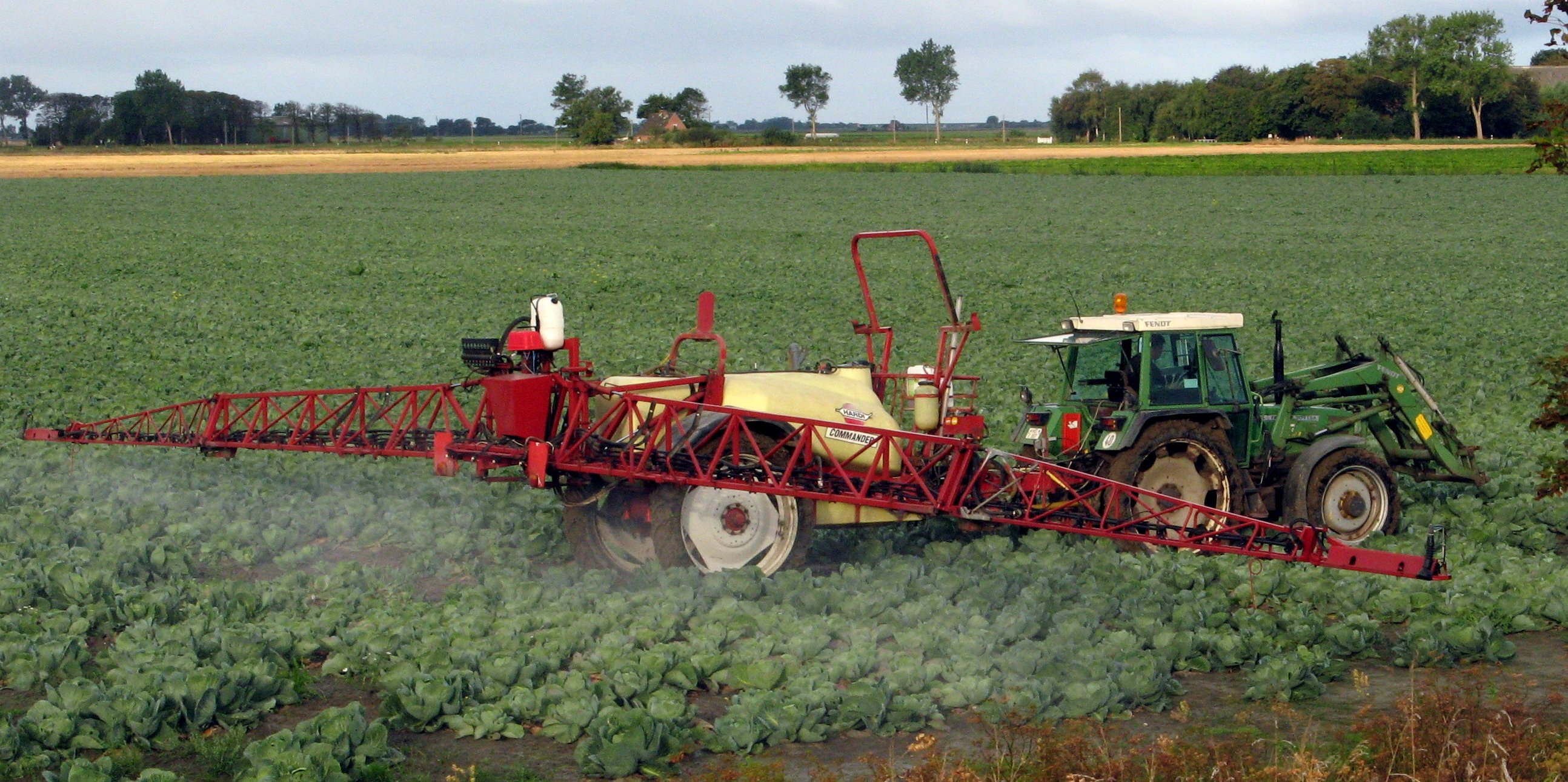 A farmer sprays his cabbage field in Schülp; a Fendt Farmer tractor with a Hardi Commander sprayer